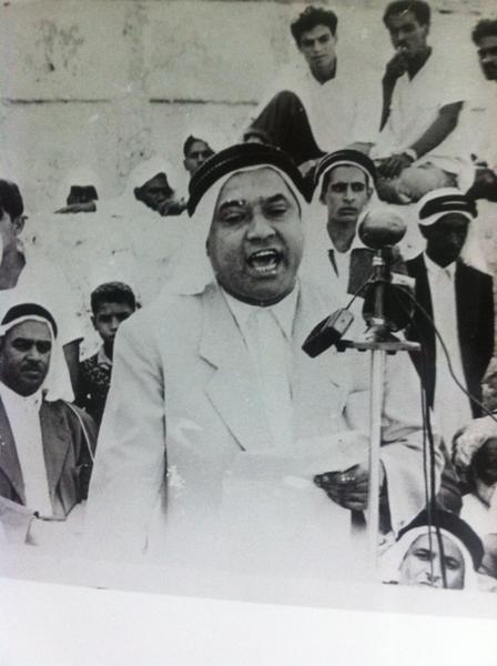 Abdulrahman Albaker revoulation